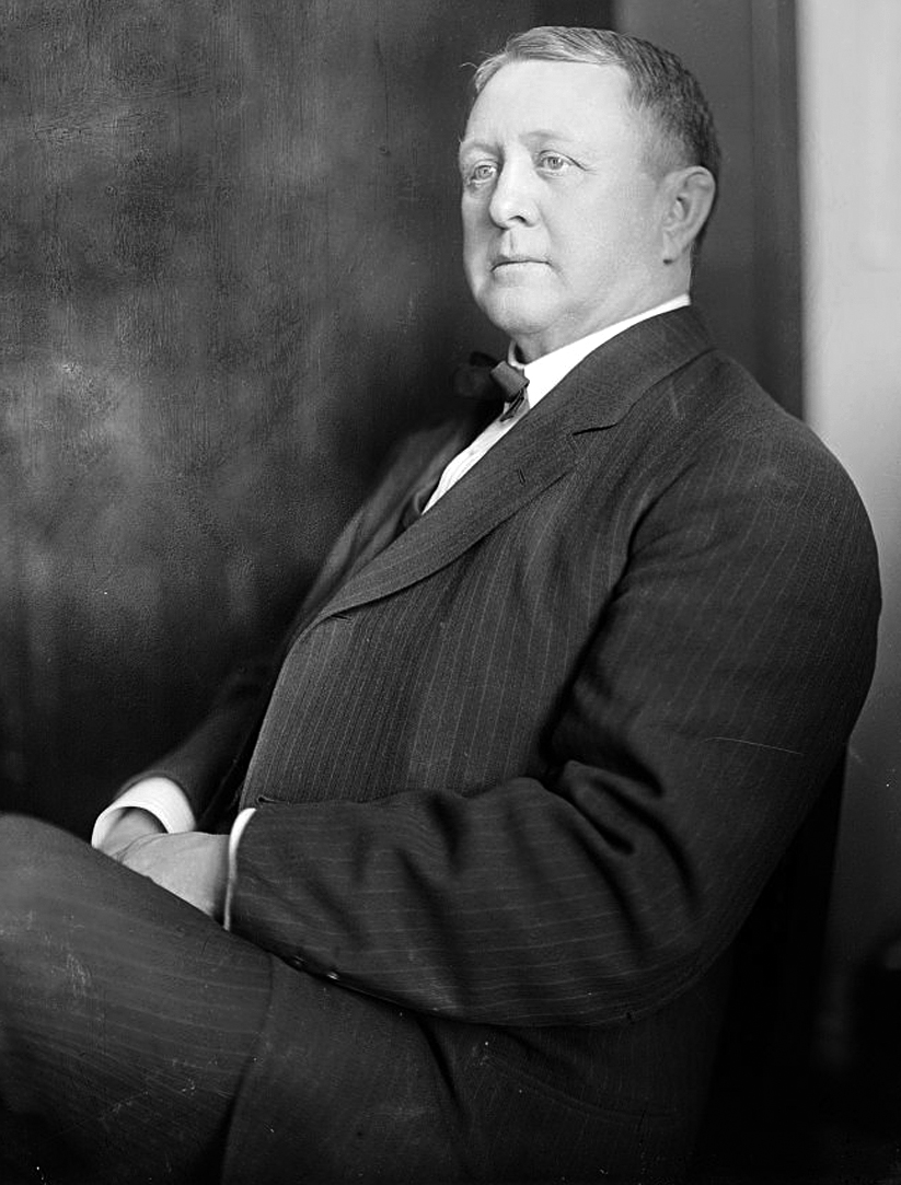 James S. Davenport, US Representative from Oklahoma